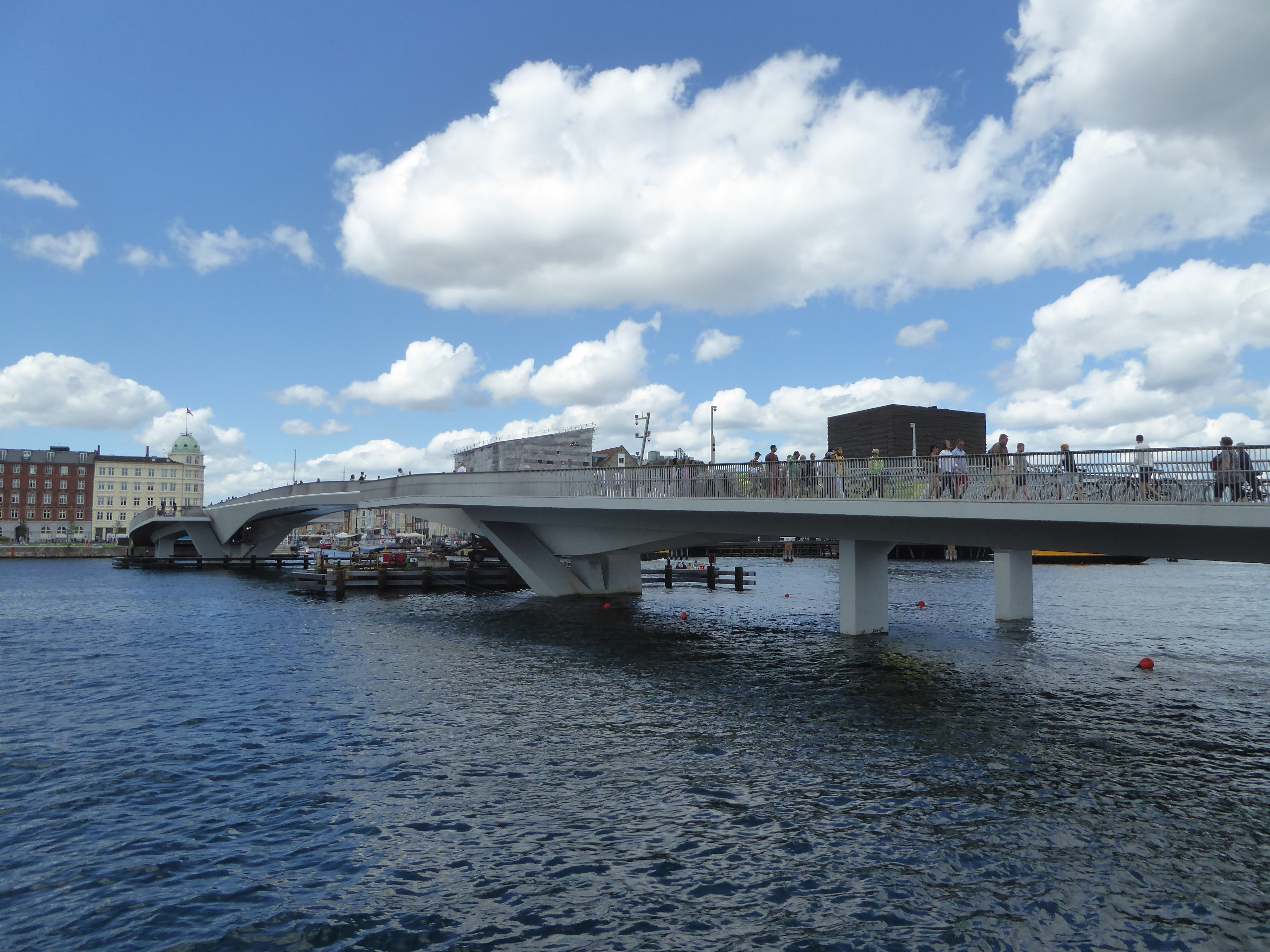 The new bridge Inderhavnsbroen seen from Christianshavn in Copenhagen.